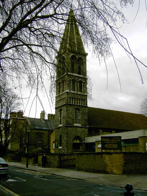 Parish church of St James the Less, St James's Avenue, Globe Town, London E2, seen from the south